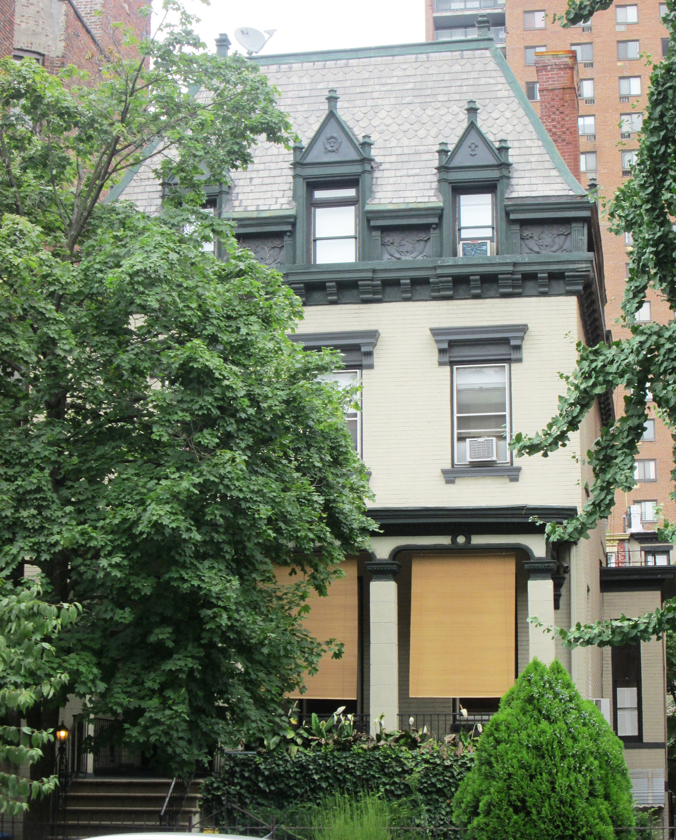 313 (313-315) Washington Avenue between Lafayette and Dekalb Avenues in the Clinton Hill neighborhood of Brooklyn, New York City was built sometime after the Civil War, and had a new roof added in 1894 by the Parfitt Brothers. The house is located in the Clinton Hill Historic District. (Source: NYCLPC Designation Report)